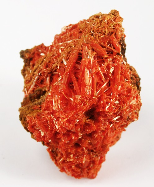 Crocoite Locality: Adelaide Mine (Adelaide Pty Mine; Adelaide Proprietary Mine), Dundas mineral field, Zeehan District, Tasmania, Australia (Locality at ) Size: 6.7 x 4.4 x 3.8 cm. Very gemmy and lustrous, reddish-orange crocoite crystals to 1.3 cm richly cover the mounded matrix on this fine and highly representative specimen from the Adelaide Mine of Tasmania.